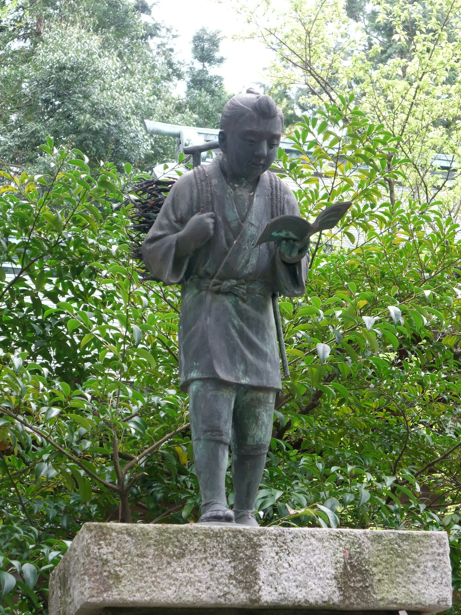 Statue of Ninomiya Sontoku at Hōtoku Ninomiya Shrine in Odawara-shi, Kanagawa